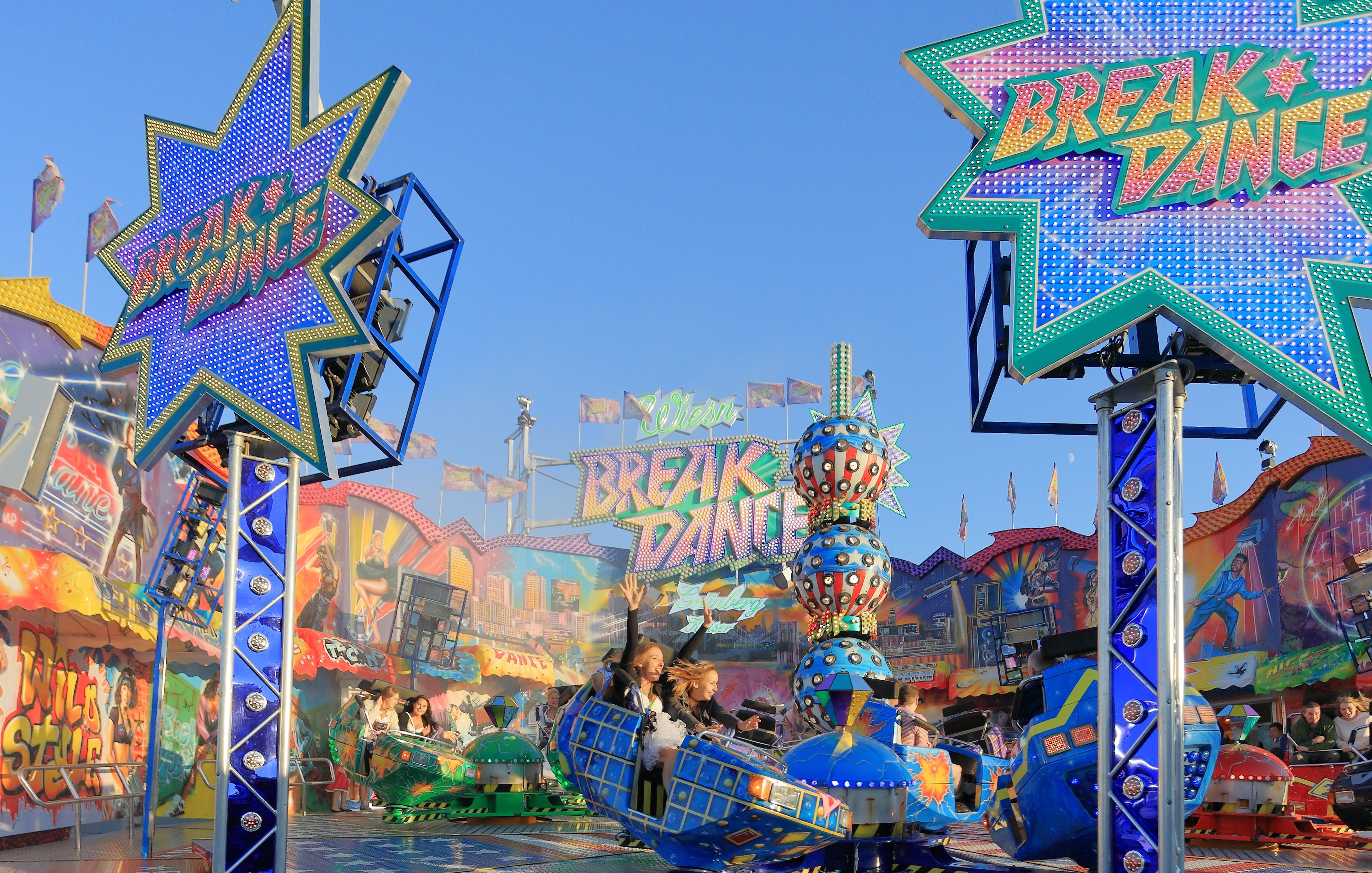 Impression of Munich's Oktoberfest 2015